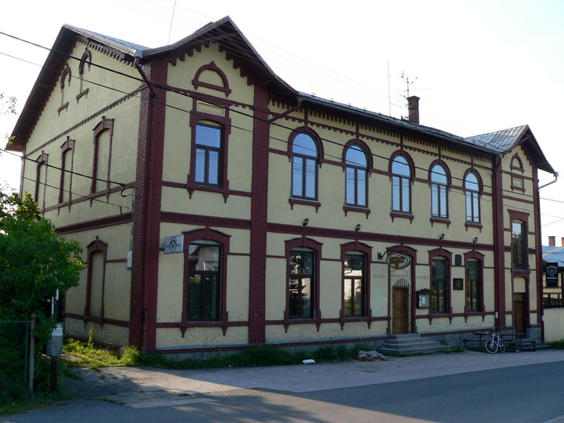 Description: Workers' House (Dom Robotniczy) in Stonava (Stonawa), Czech Republic. It was built in 1905 becoming the first one of its kind in Cieszyn Silesia. Date: 11 September, 2006 Camera: Panasonic DMC-FZ20 Author: Czesil